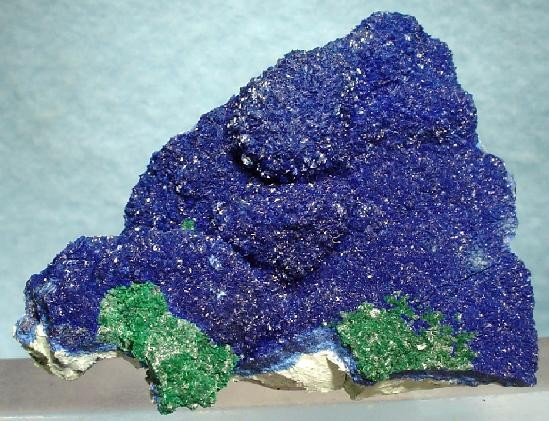 Azurite, Malachite Locality: Apex Mine (Dixie Mine; Utah-Eastern Mine; Dixie-Apex; Pen), Jarvis Peak, Tutsagubet District, Beaver Dam Mts, Washington County, Utah, USA (Locality at ) Size: 5.1 x 3.9 x 2.4 cm. A very showy specimen of tiny, sparkly, royal-blue azurite crystals covering matrix and nicely accented by a bit of green malachite from the Apex Mine at St. George, Utah. Ex G.B. Robbe and Seaman Museum Collections.